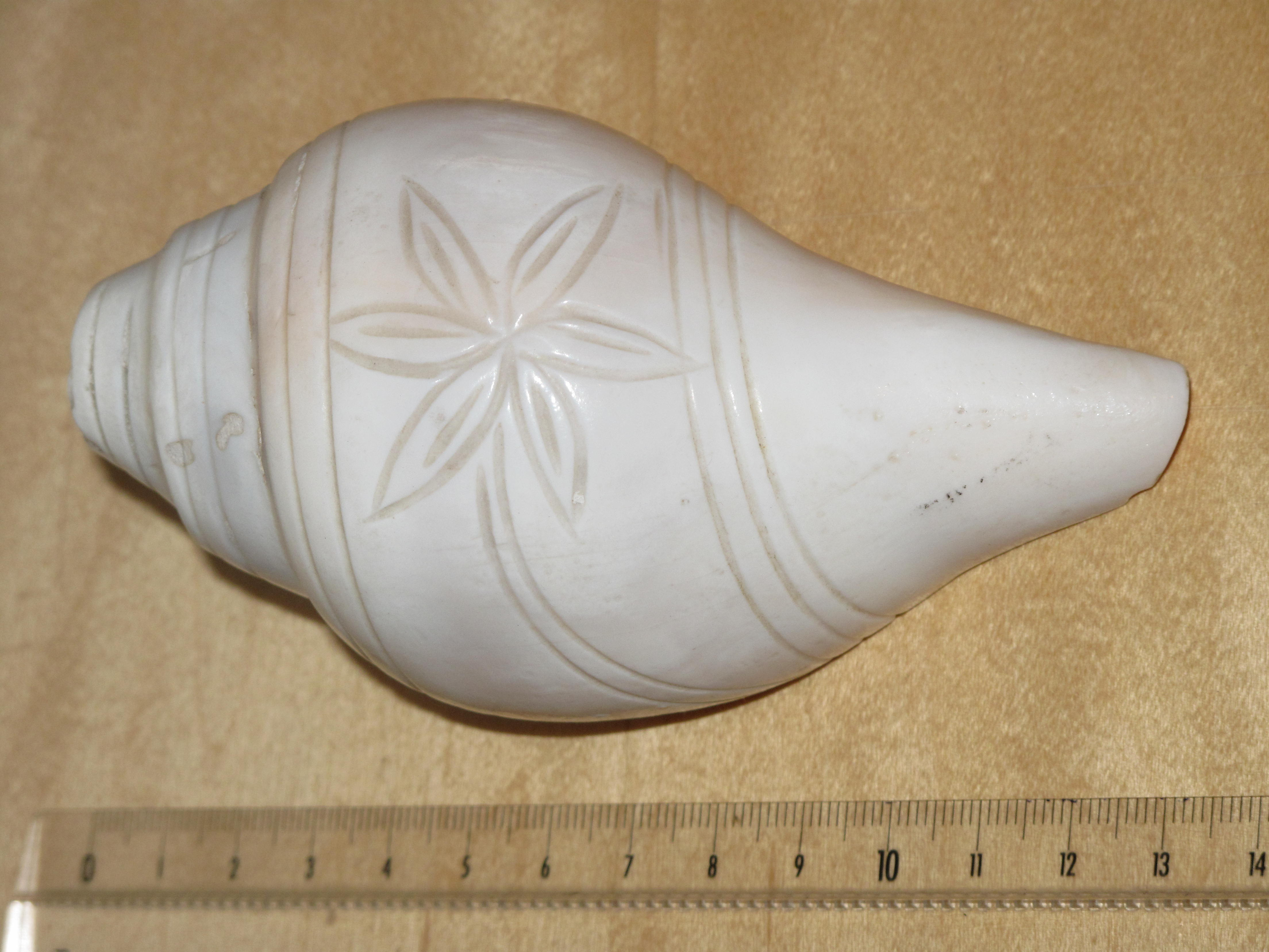 Small hindu conch (shankha) with a rosette, Vishnu symbol. Length : 10.5 cm ; diam. : 5.8 cm